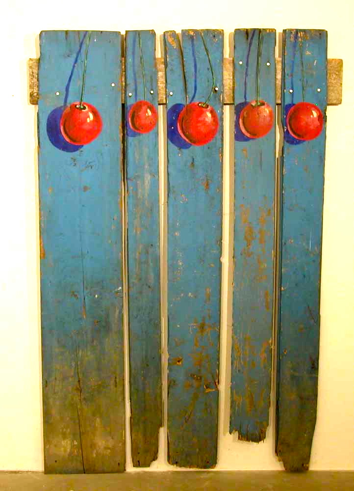 Fence, 1975, acrylics on wood, 80 m X 2 m, detail